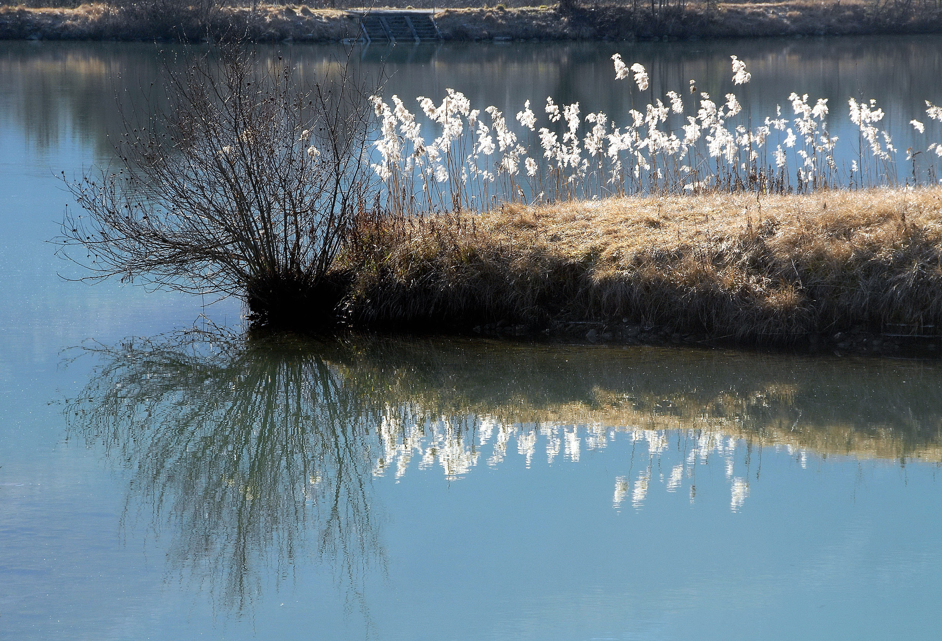 Hibernal reeds on a small headland down by the river Drau near the castle Hollenburg in the community Köttmannsdorf, Carinthia, Austria.